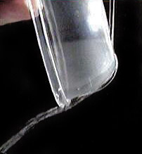 The Coandă effect, demonstrated with a water stream.